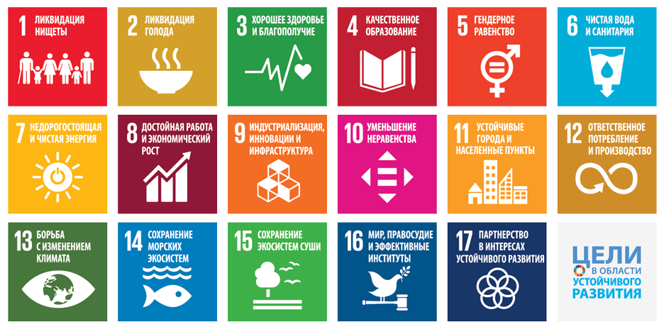 Icons of the 17 Sustainable Development Goals, file from the Russian version of the Official UNESCO site.